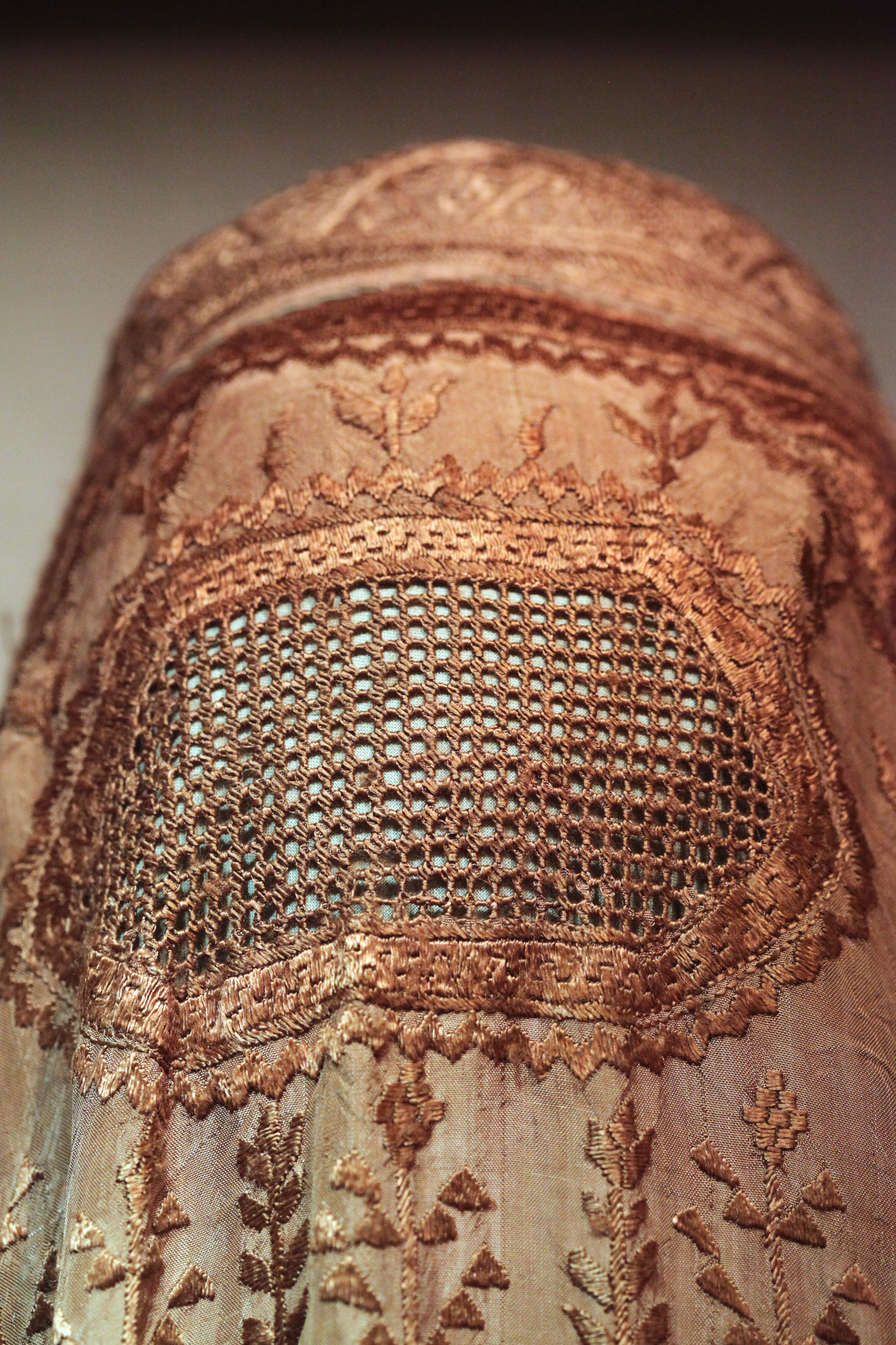 Silk burqa, 2oth century